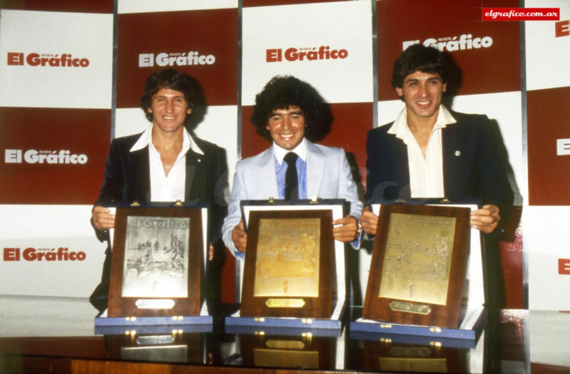 Zico, Maraadona and Fillol, being awarded by El Gráfico.